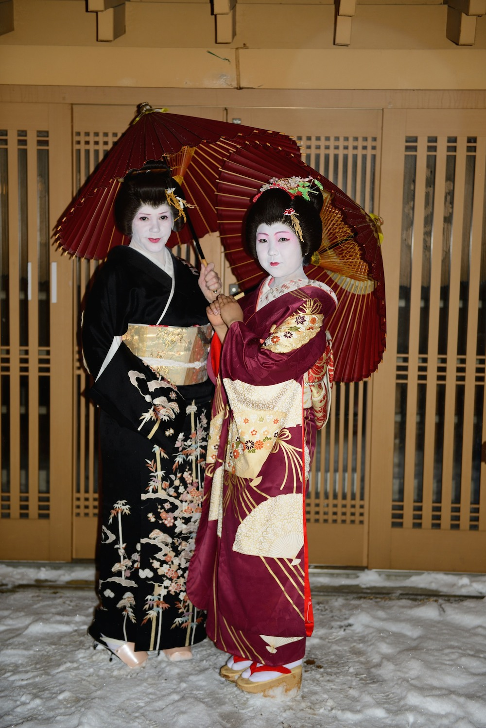 Australian geisha Sayuki (on the left) and one of her trainees